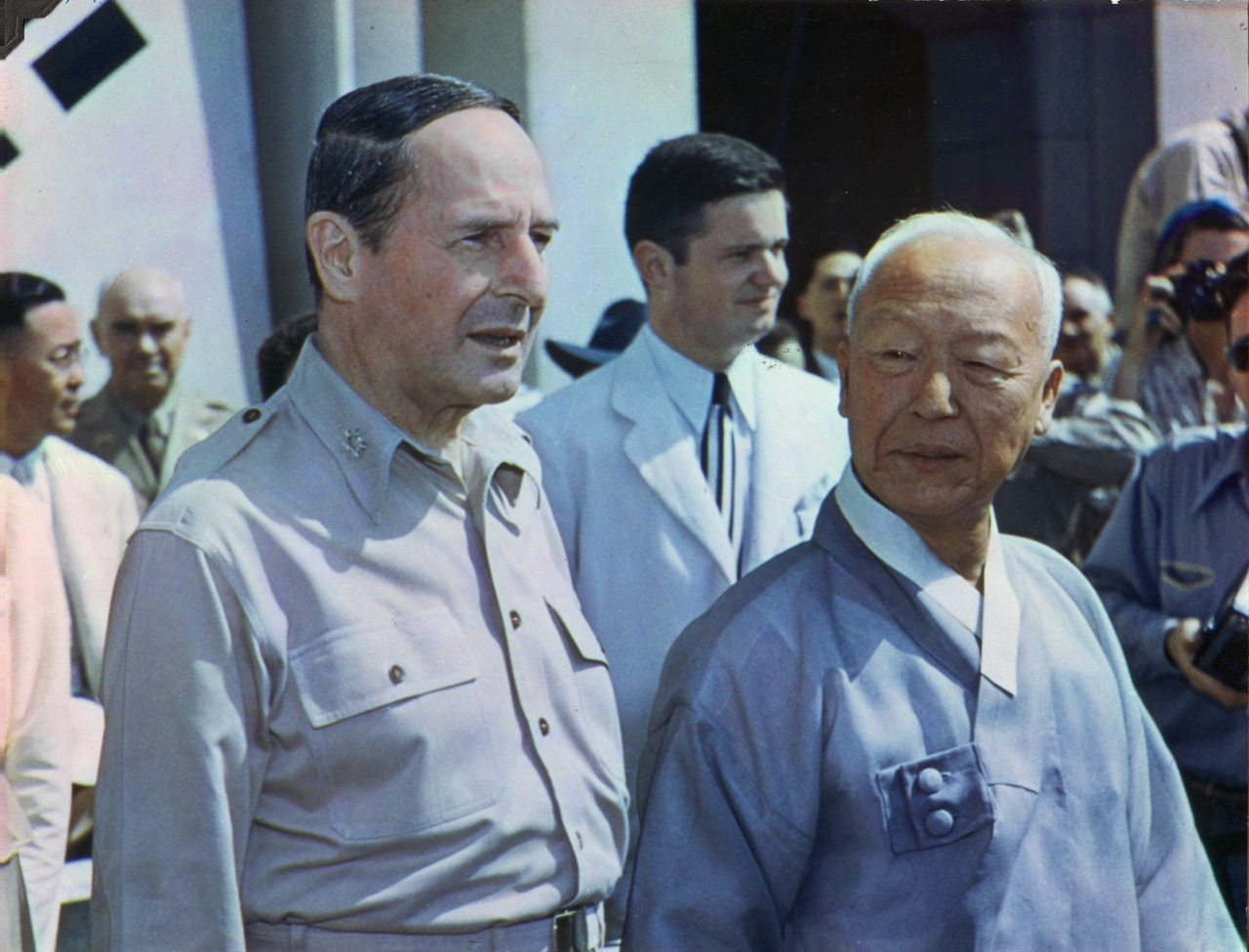 Syngman Rhee and Douglas MacArthur, 1948.08.15